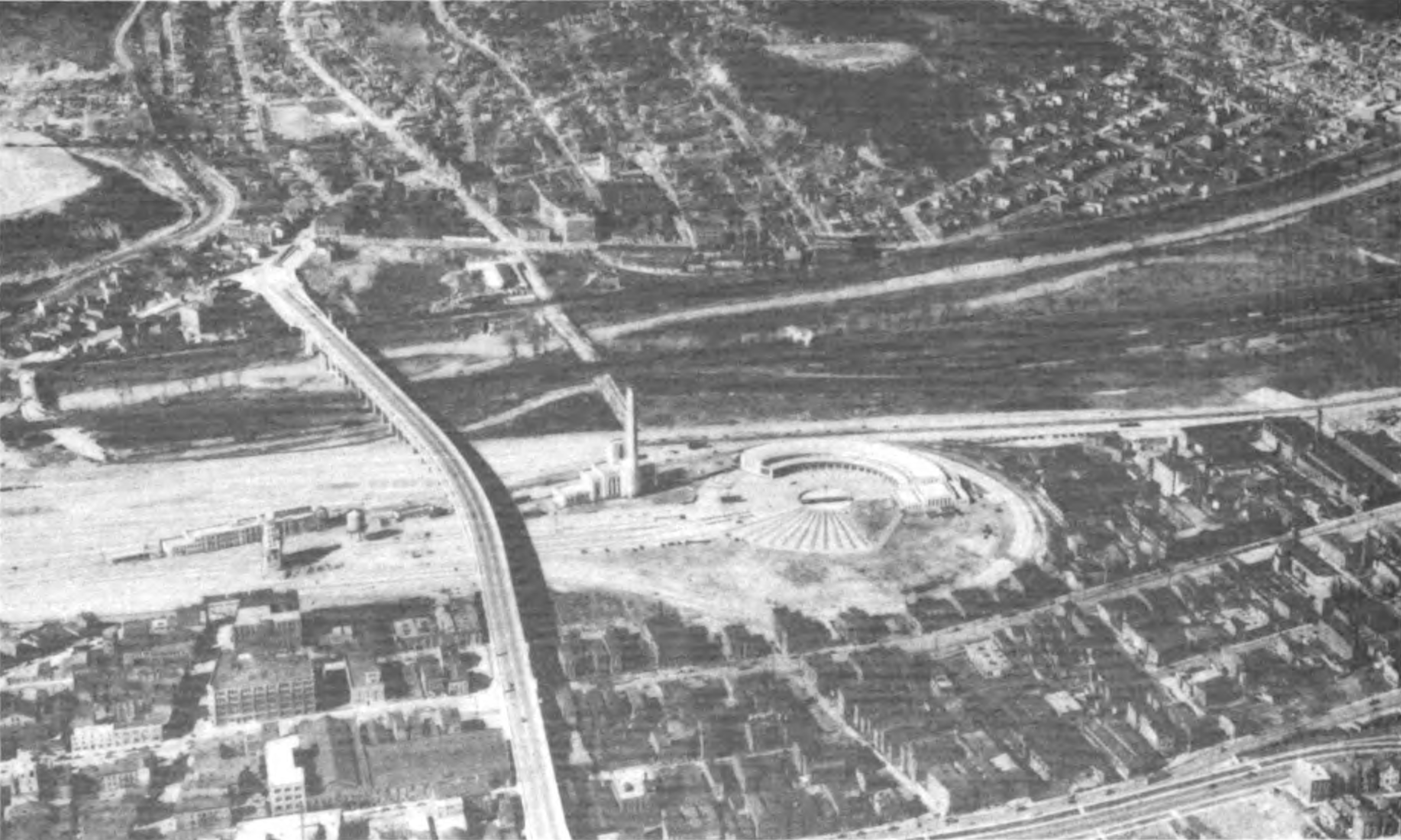 Part of Cincinnati Union Terminal, photo first published in "The Cincinnati Union Terminal: Pictoral History".